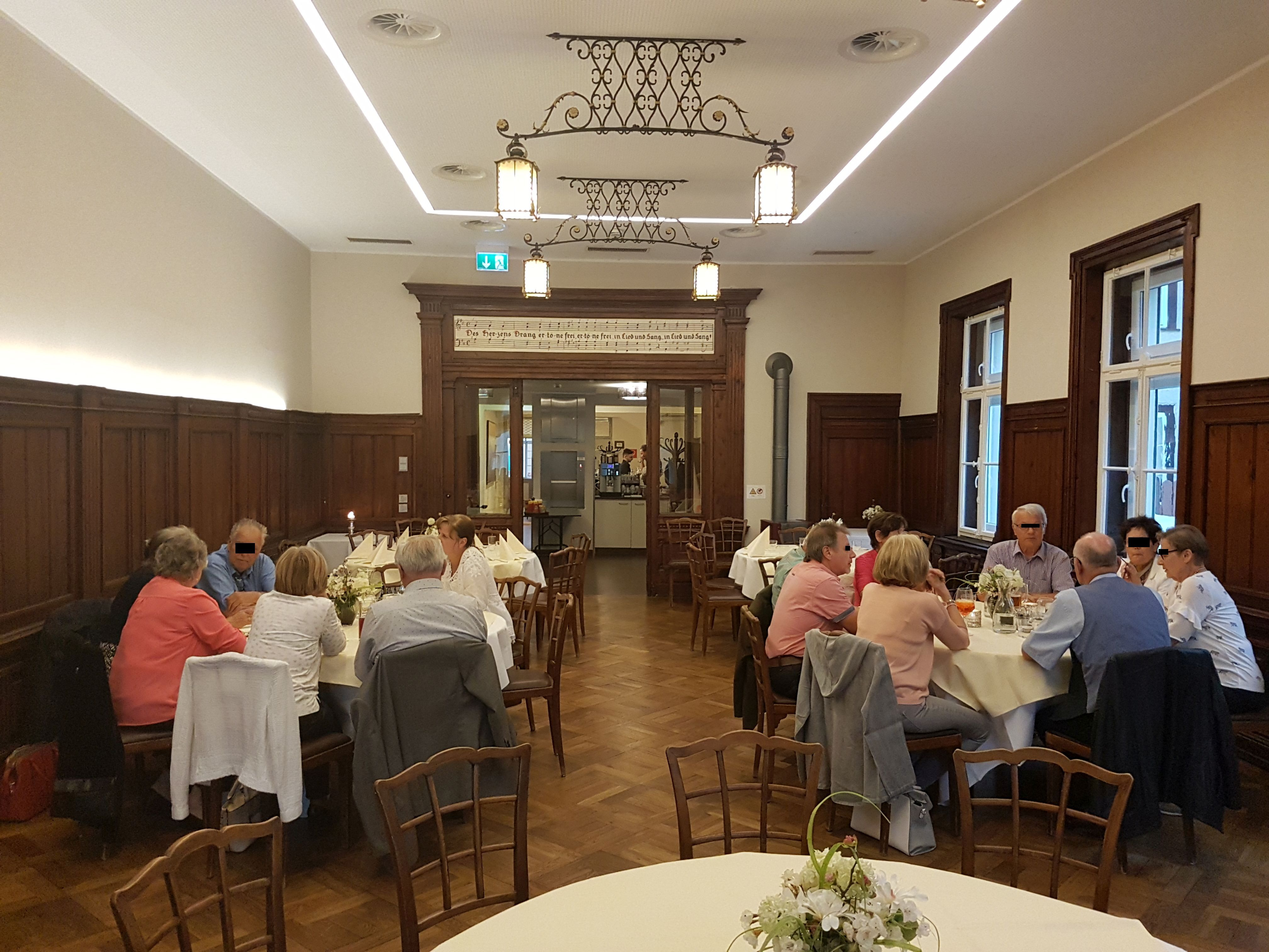 The renovated "Hirschensaal" in the Inn "Goldener Hirschen" in Bregenz, Vorarlberg, Austria